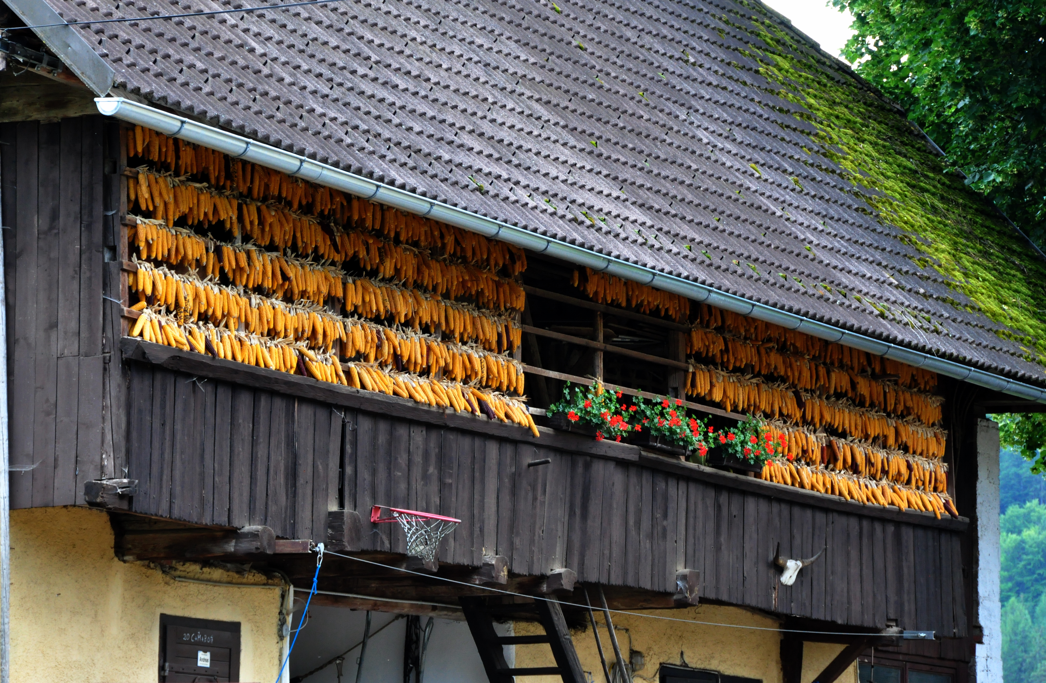 Hoeflein #5, for drying suspended corncobs from balcony poles at the barn of the farmstead "vulgo SCHUSCHU" in the municipality Keutschach am See, district Klagenfurt Land, Carinthia, Austria